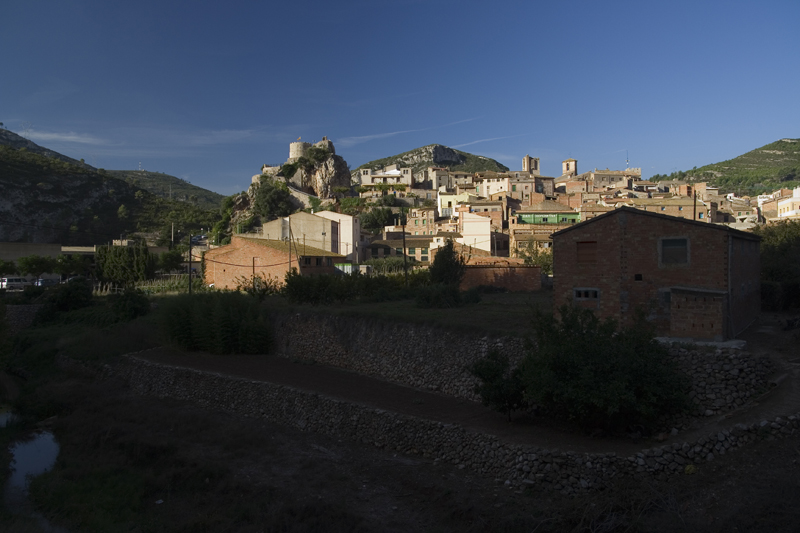 Vista de Pratdip (Baix Camp, Catalonia)